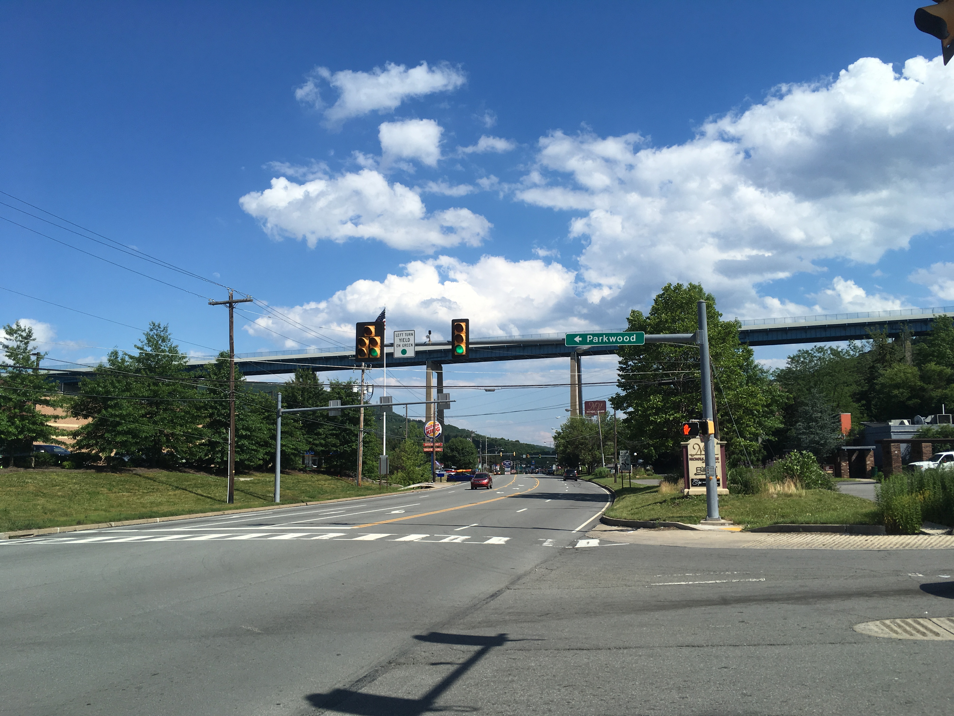 Eastbound U.S. Route 6/southbound U.S. Route 11 approaching the interchange with Interstate 81 and the northern terminus of Interstate 476 (Pennsylvania Turnpike Northeast Extension) in Clarks Summit, Pennsylvania